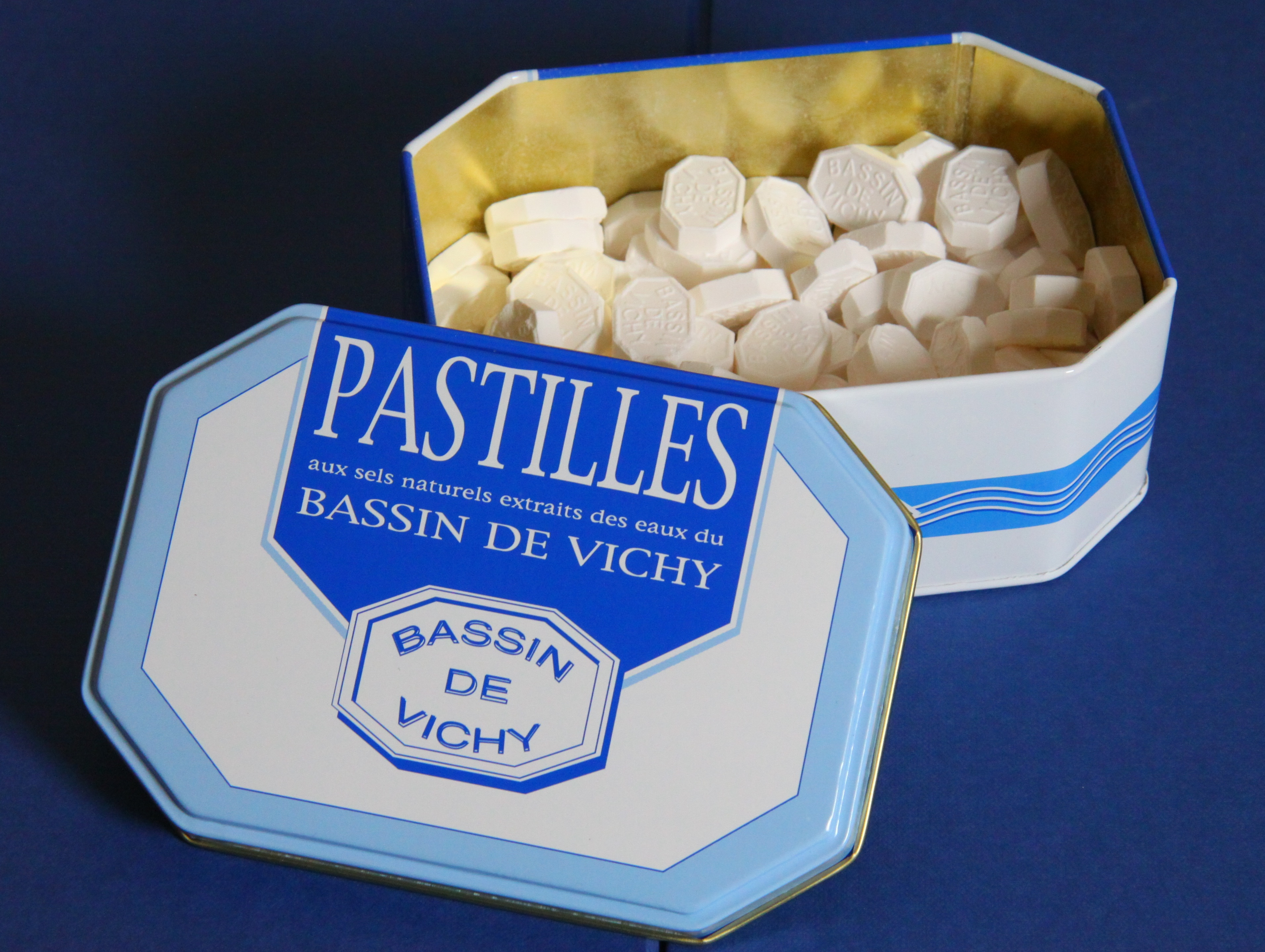 Pastilles de Vichy. Brand: H. Moinet ( Tablets are labeled "Bassin de Vichy".